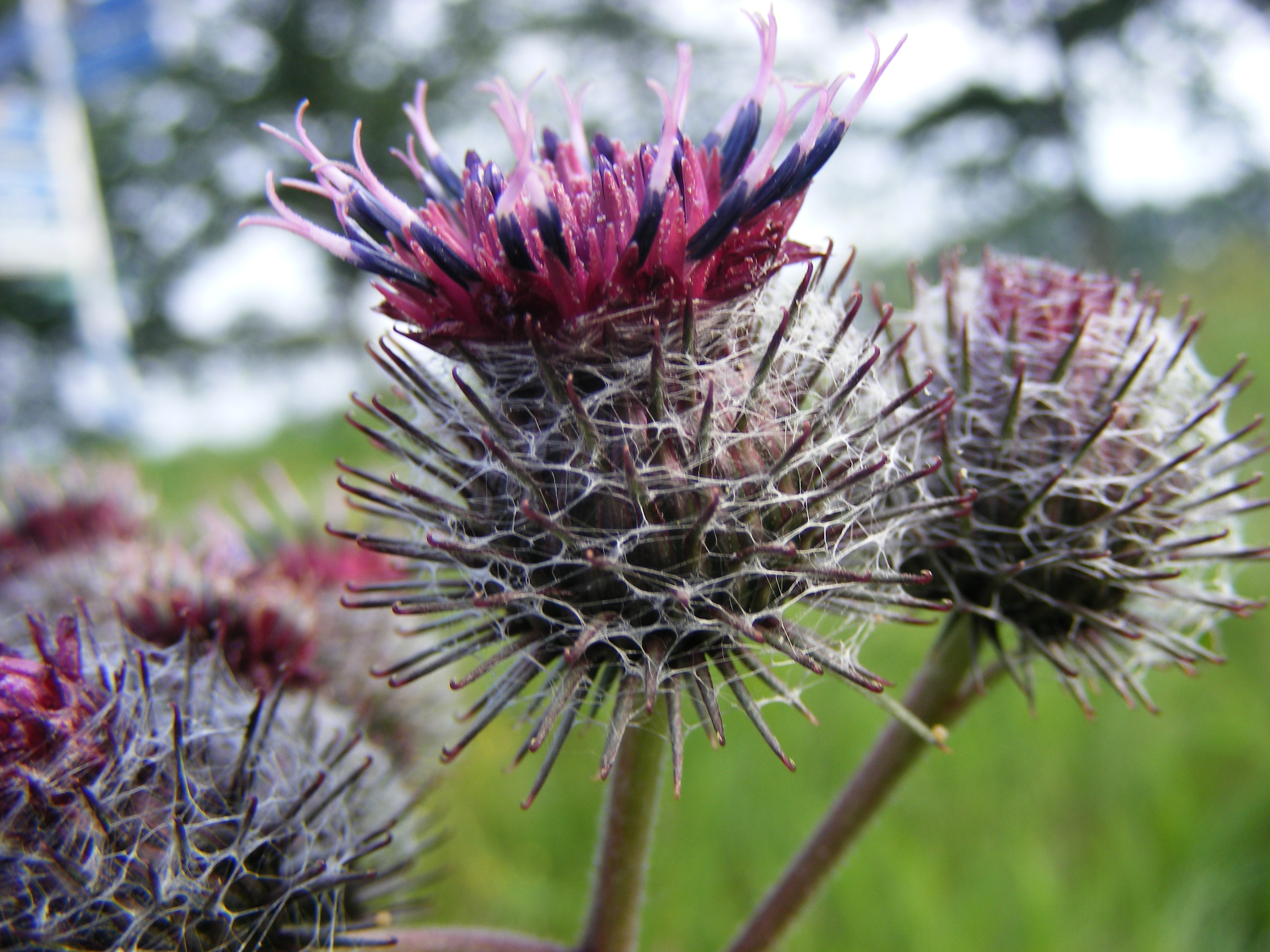 This photo shows Arctium tomentosum Flowerheads